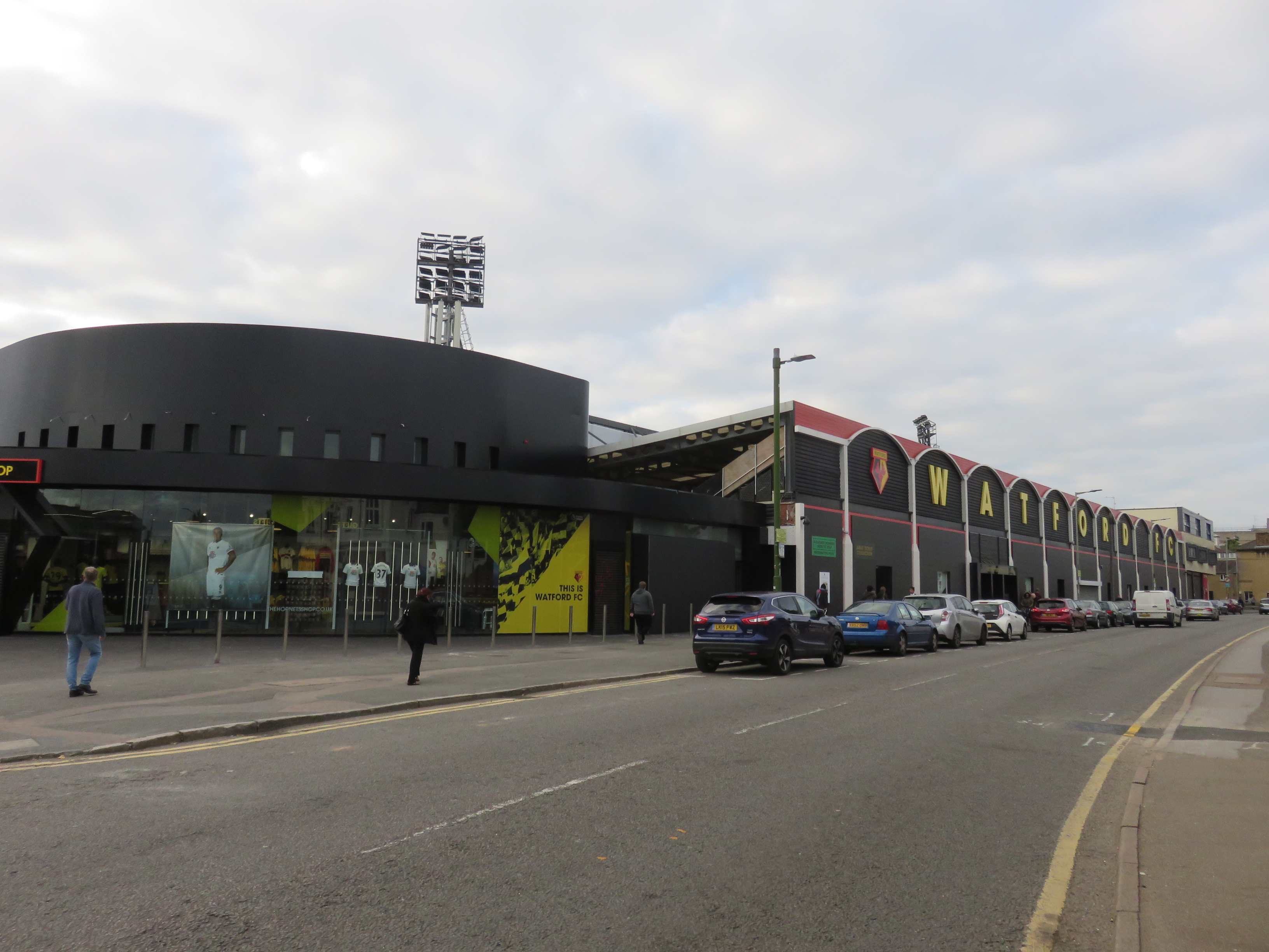 Watford Football Club